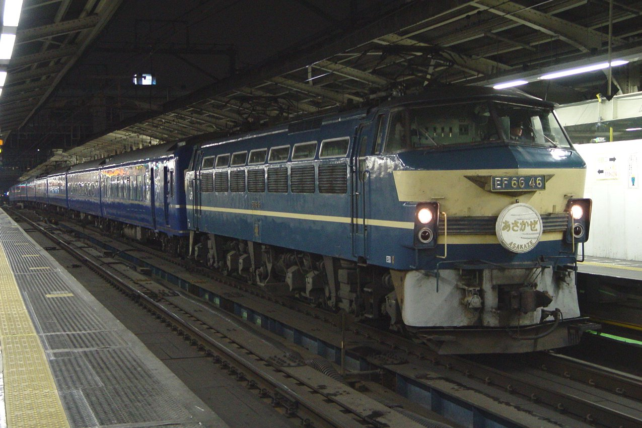 EF66 46 hauling the down "Asakaze" sleeper service at Yokohama station